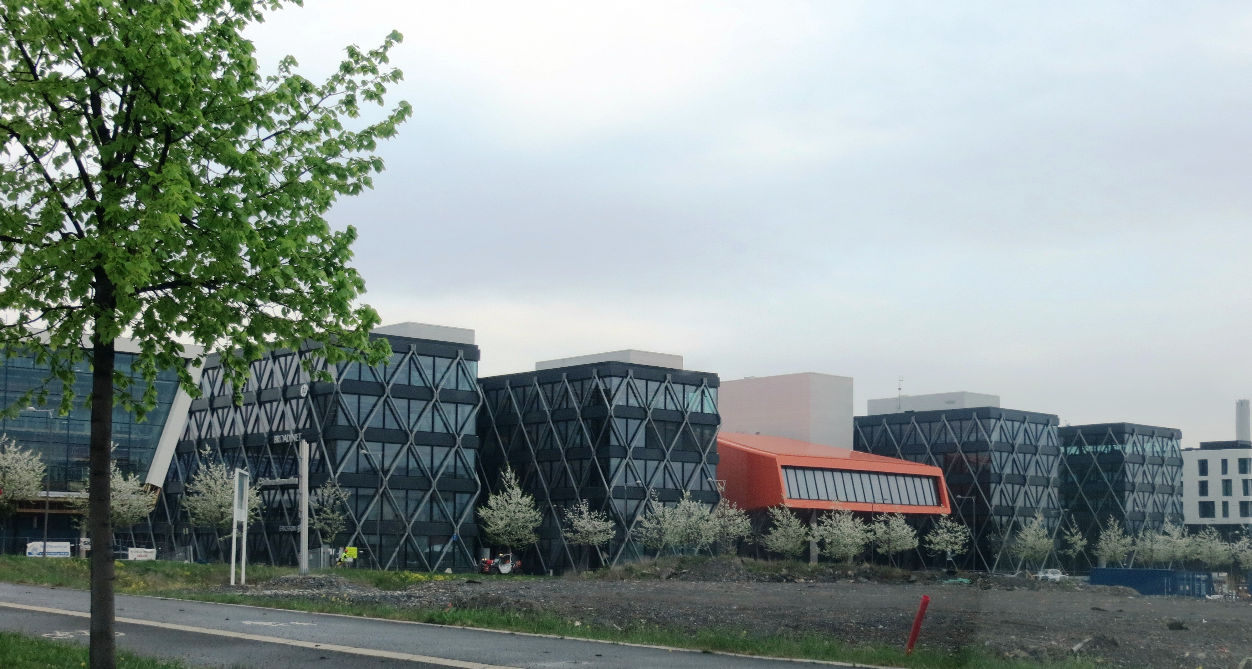 IT Fornebu, a hightech cluster just outside Oslo, Norway.